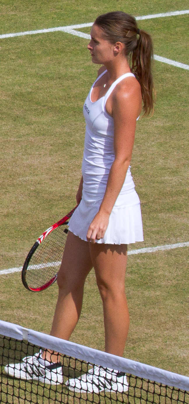 Iveta Benešová before mixed doubles match at Wimbledon 2010 (semi finals)